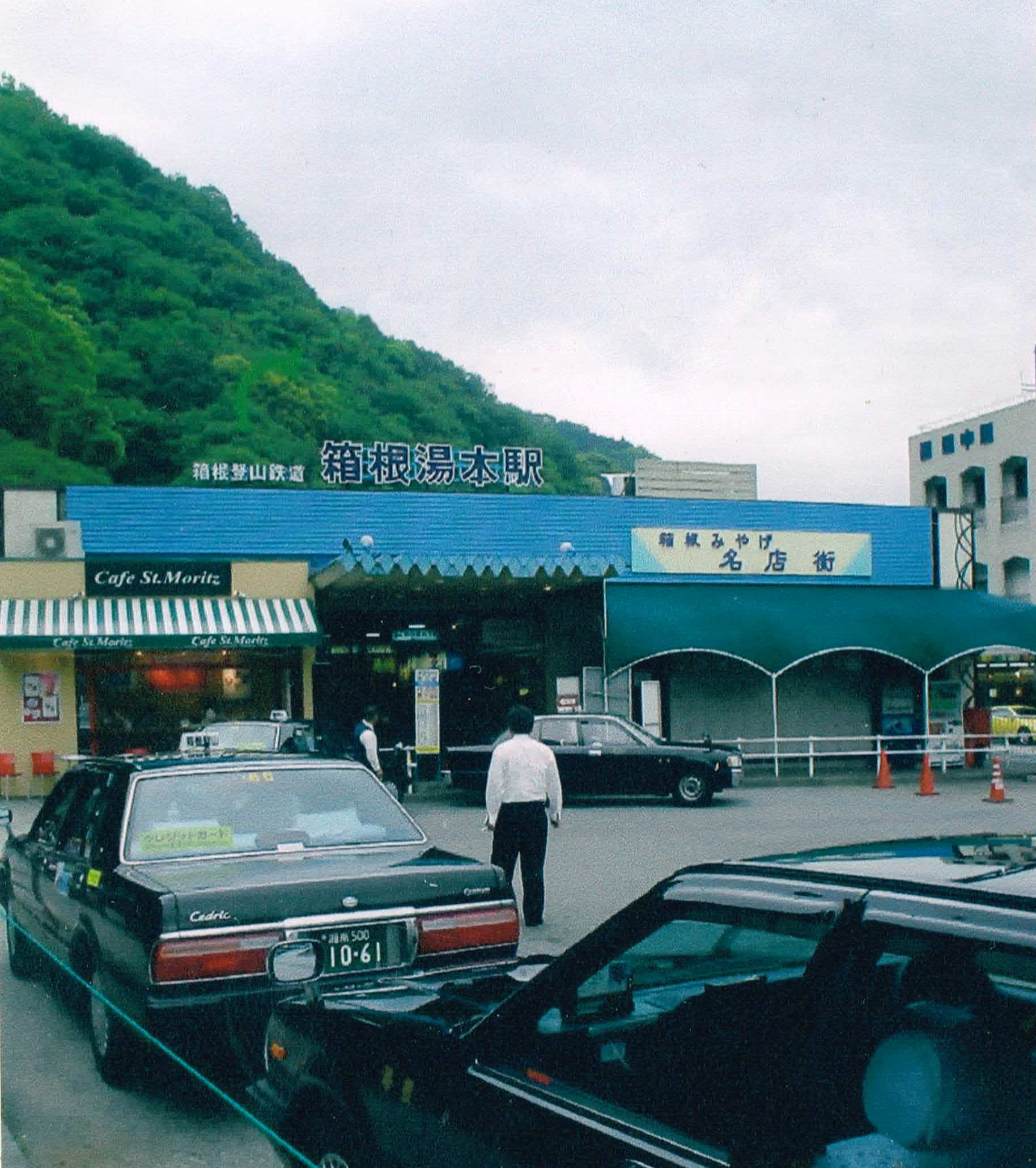 Hakone-Yumoto Station old station building (箱根湯本駅の旧駅舎)